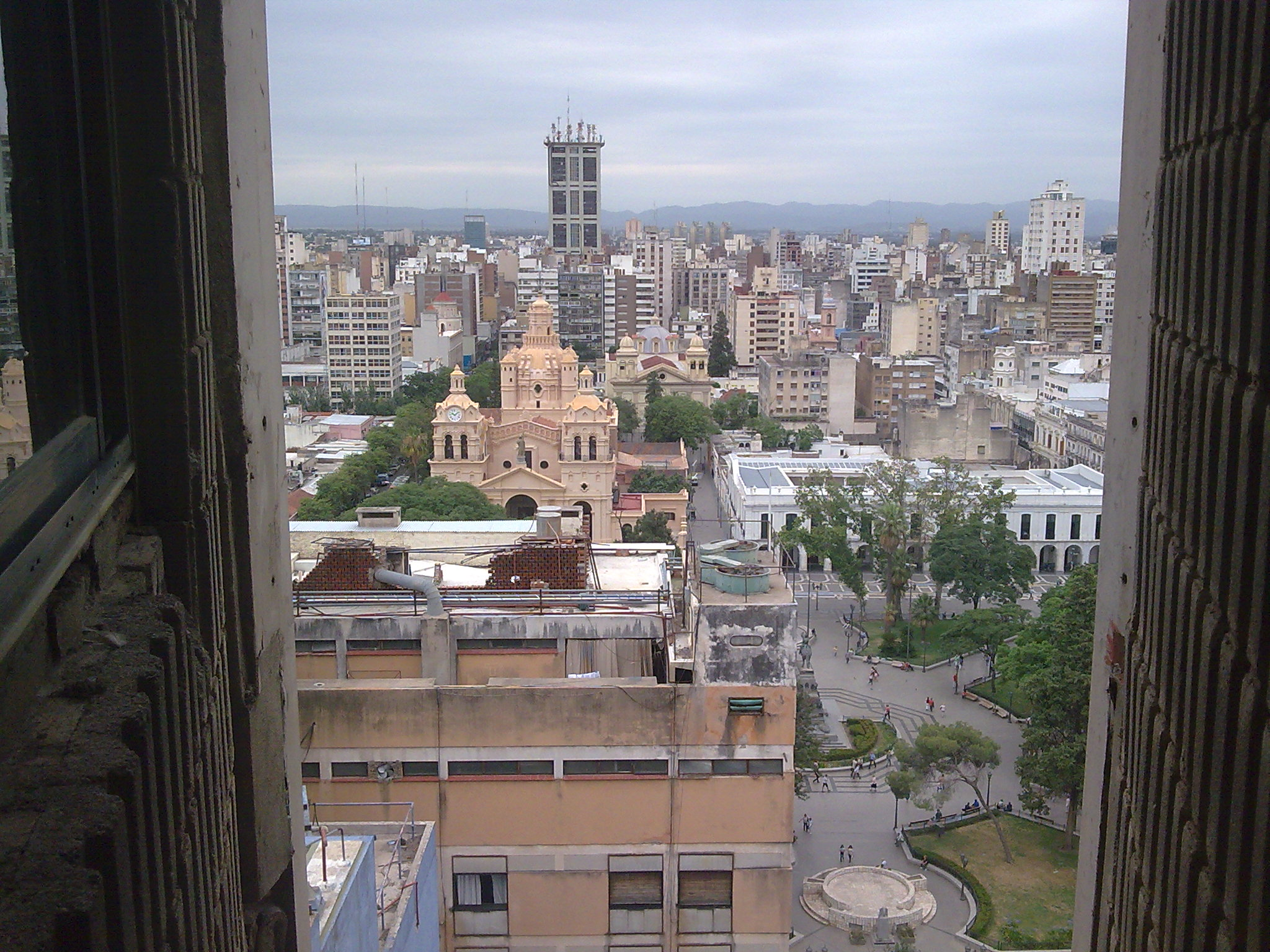 Cityscape at downtown Cordoba City, Argentina. In the background, San Martin square.